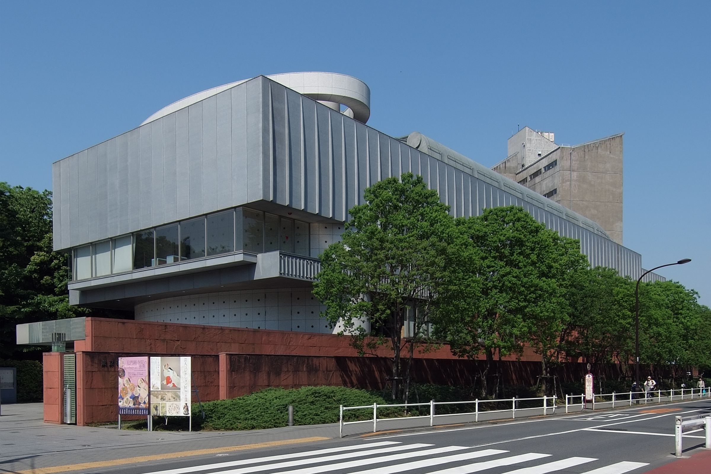 The University Art Museum-Tokyo National University of Fine Arts and Music, at taito-ku Tokyo Japan.